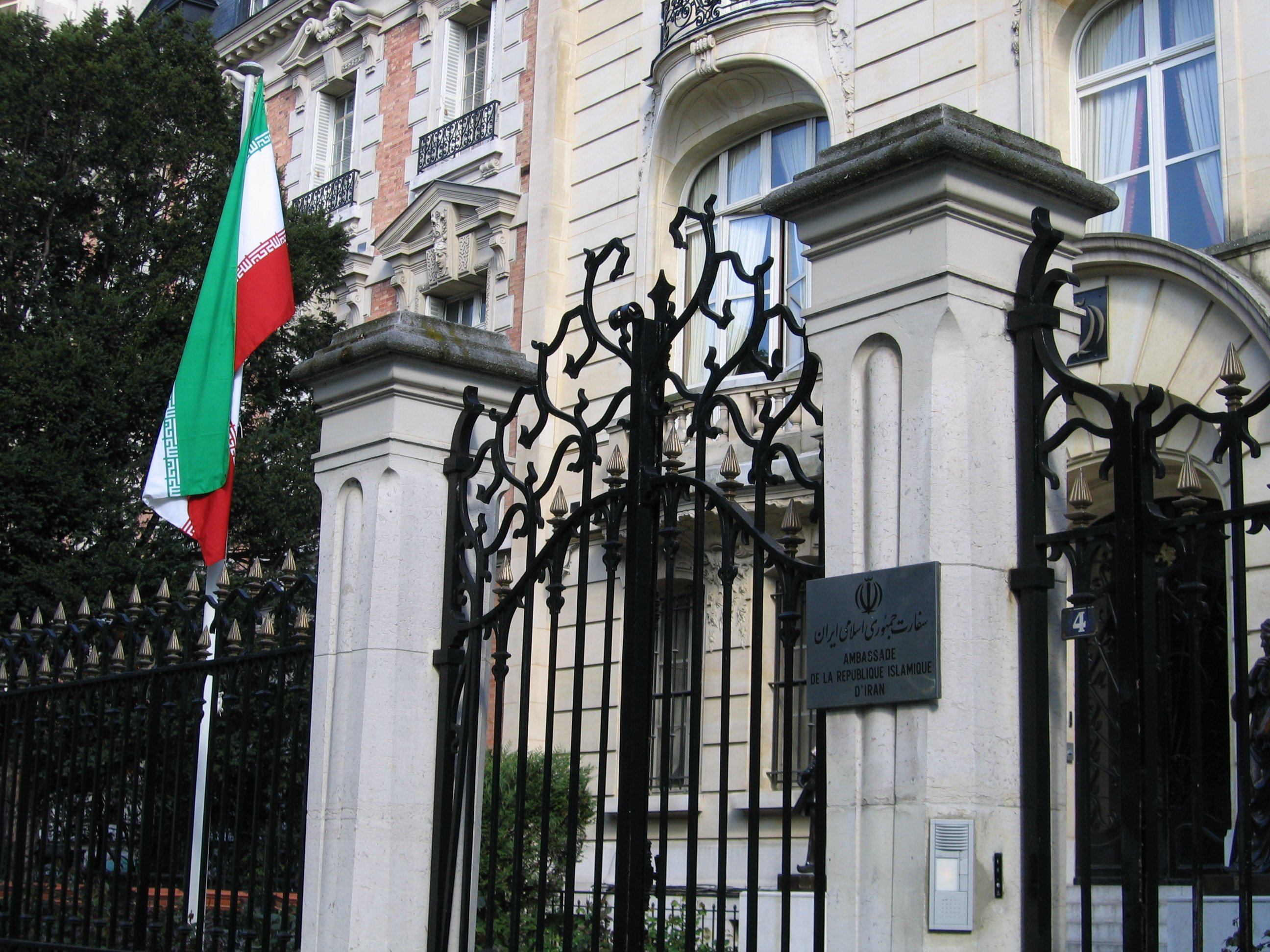 Embassy of Iran in Paris.